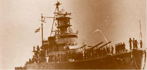 The Siamese Navy coastal defense vessel Thonburi.